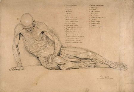 drawing of the echorche Smuglerius